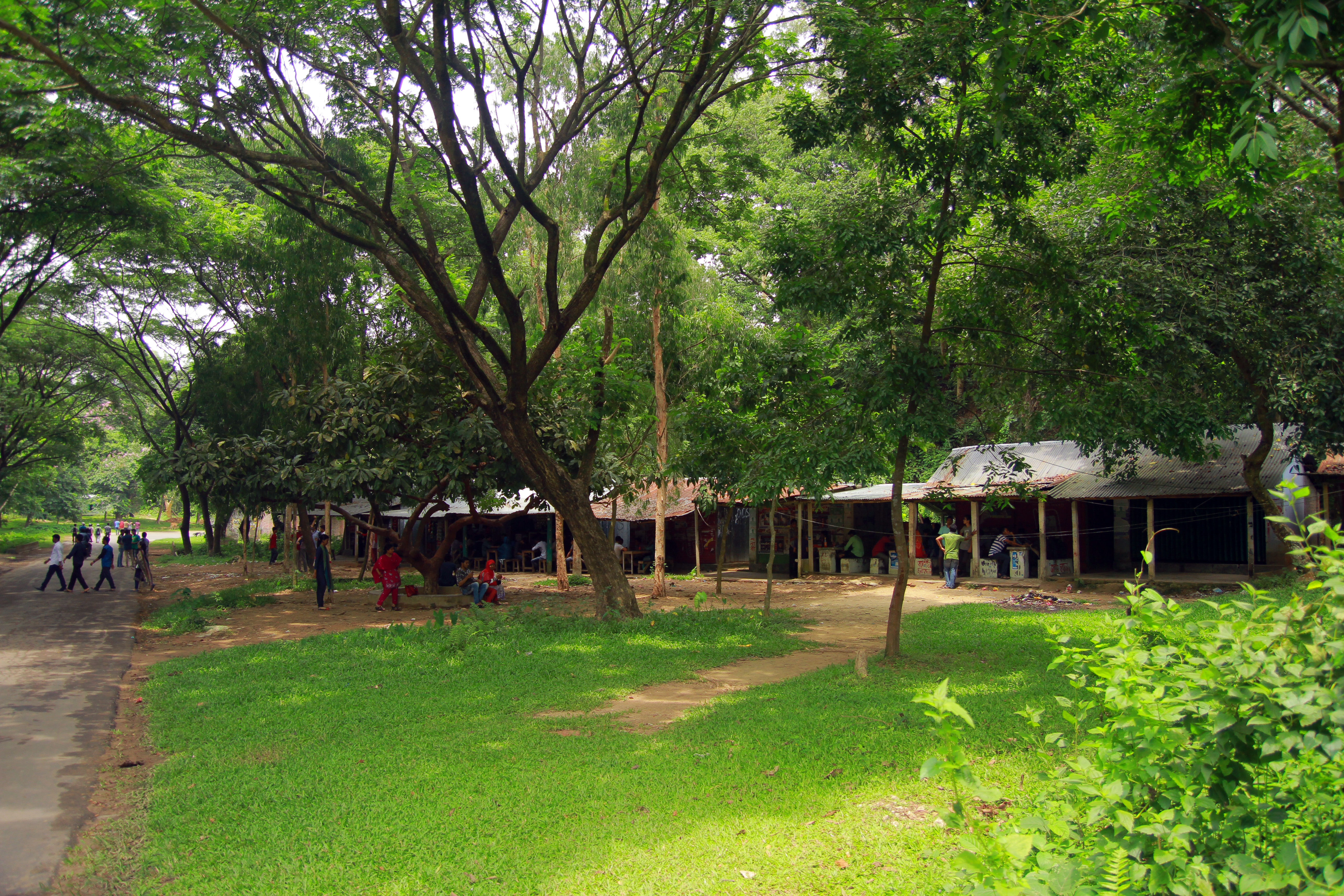 Shack beside Faculty of Social Sciences at University of Chittagong